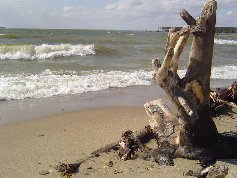 View of the Ob sea water reservoir south of Novosibirsk (Russia).